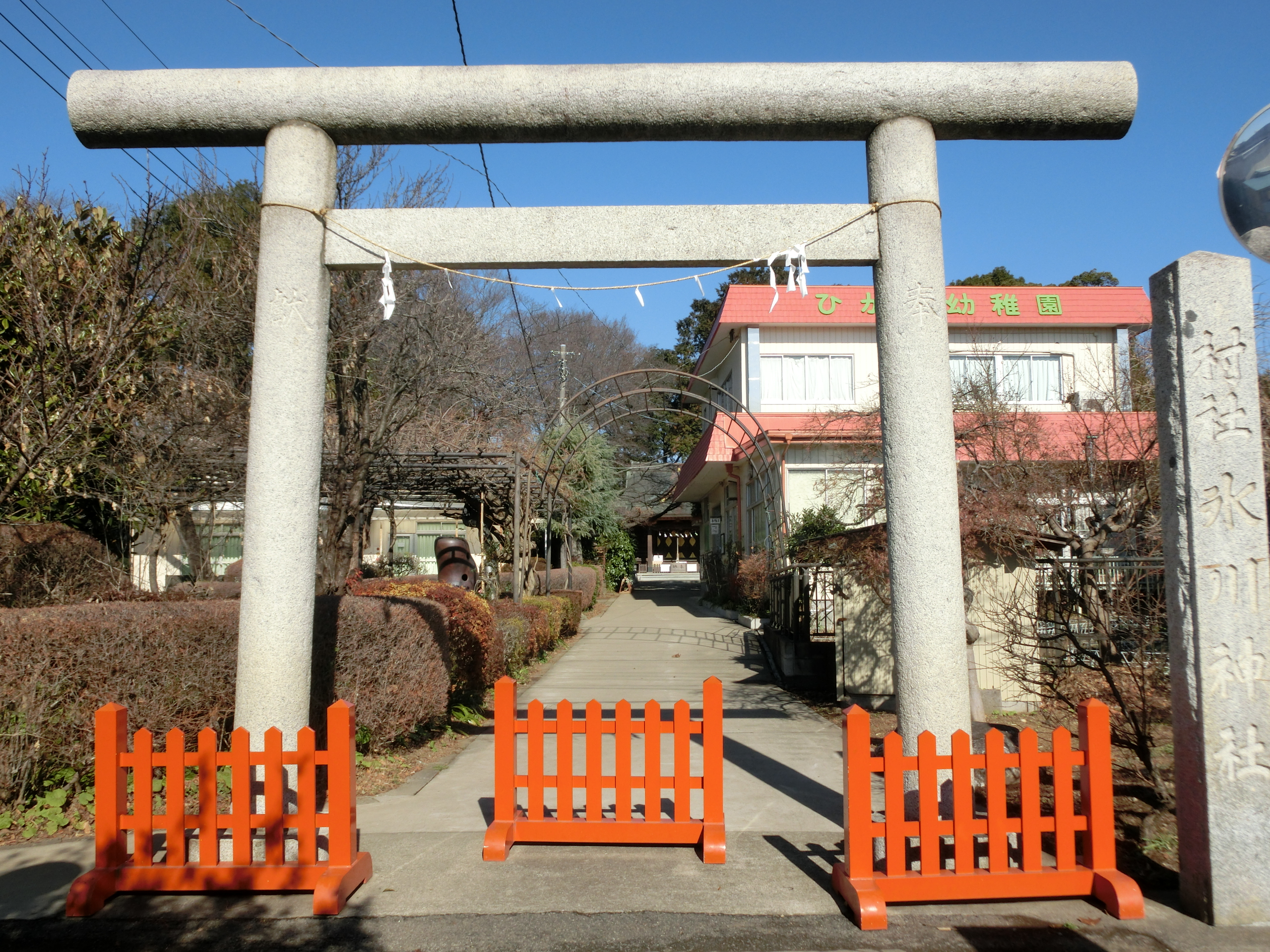 Hikawa Jinja (Futatsumiya, Ageo)